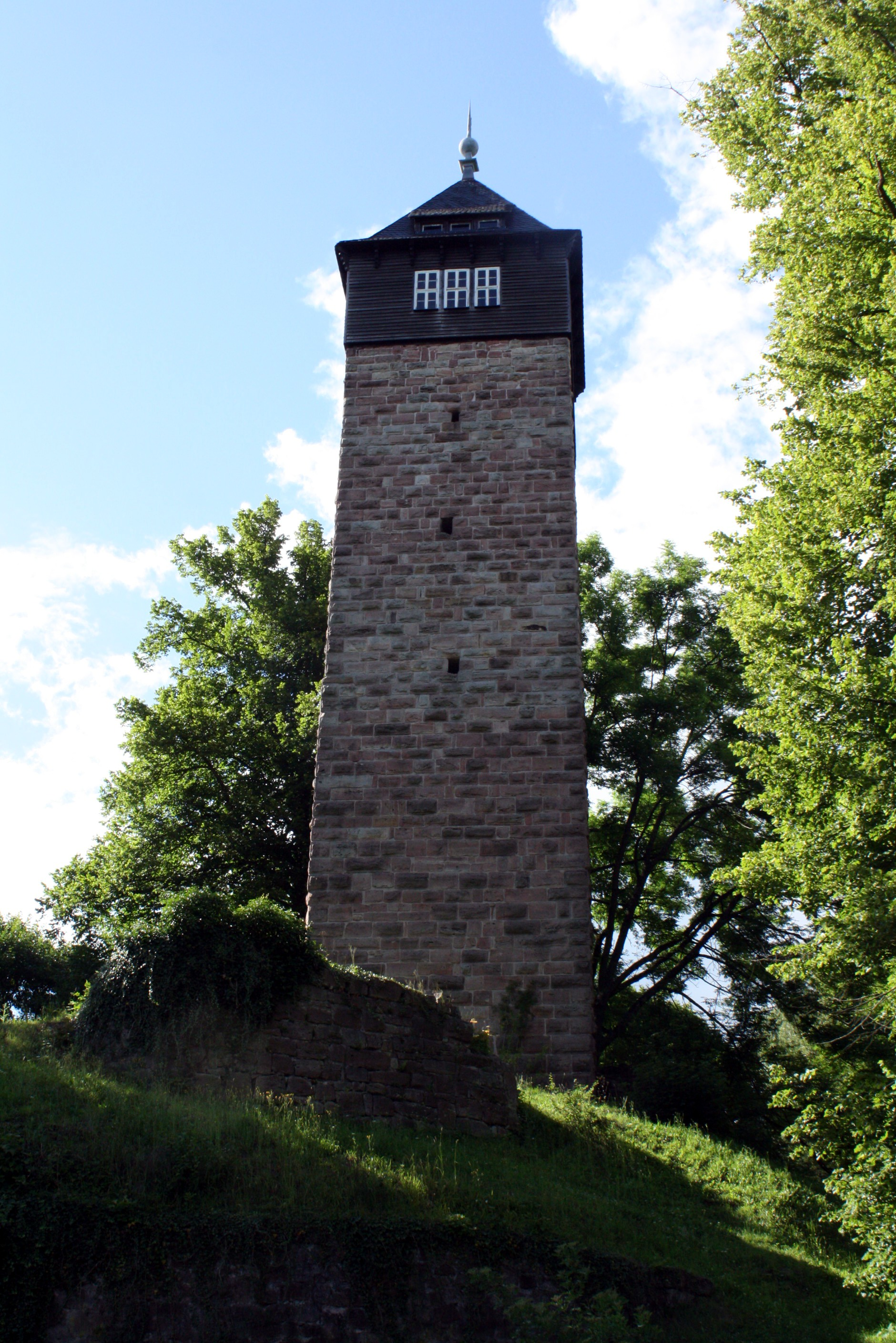 Castle Maienluft in Wasungen near Meiningen/Thuringia